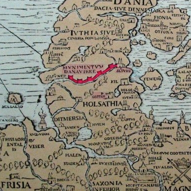 Detail from the quoted map, demonstrating the water body south of the Danevirke